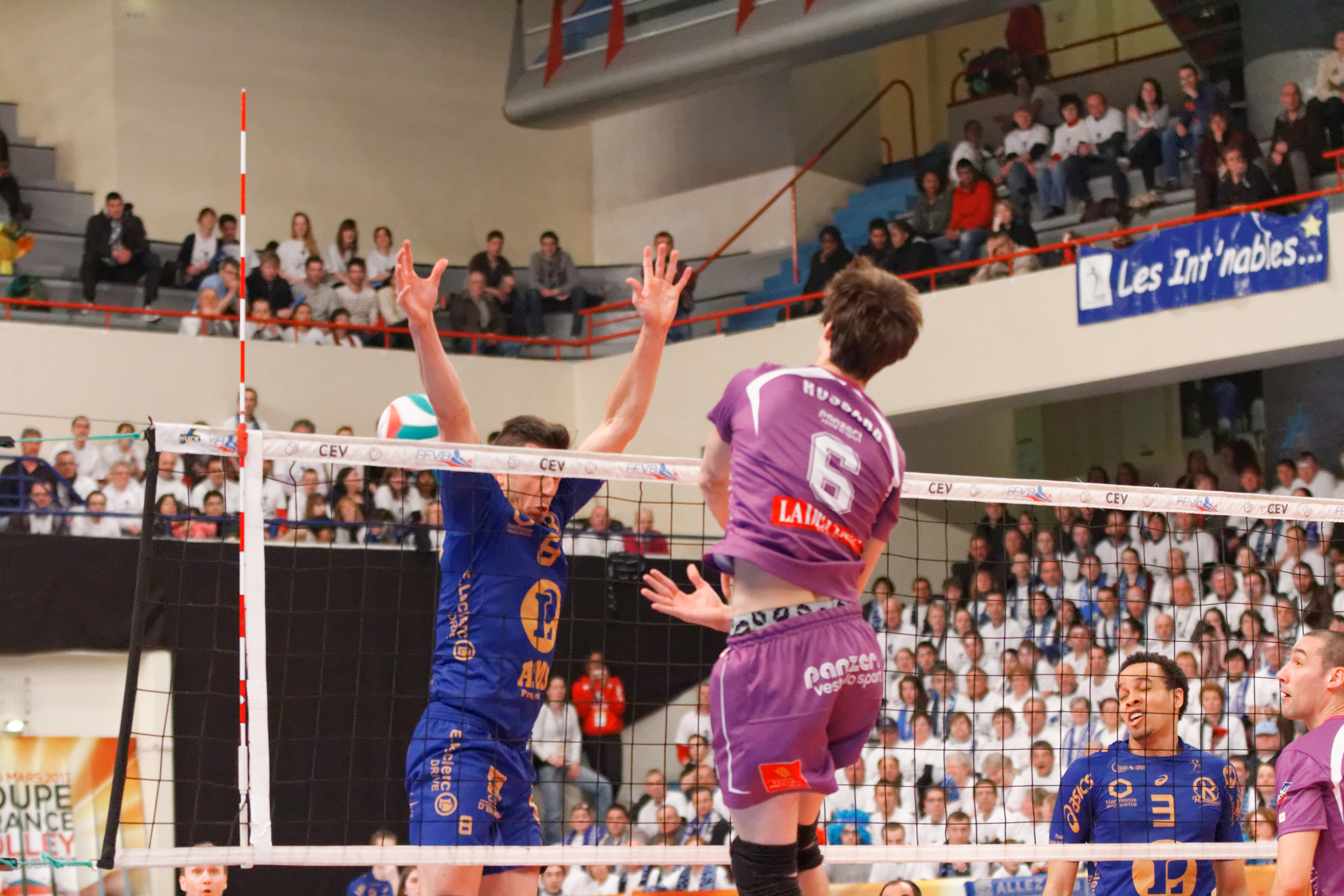 Final of the Volleyball French Cup, Tours Volley-Ball - Spacer's Toulouse Volley, March 30, 2013.